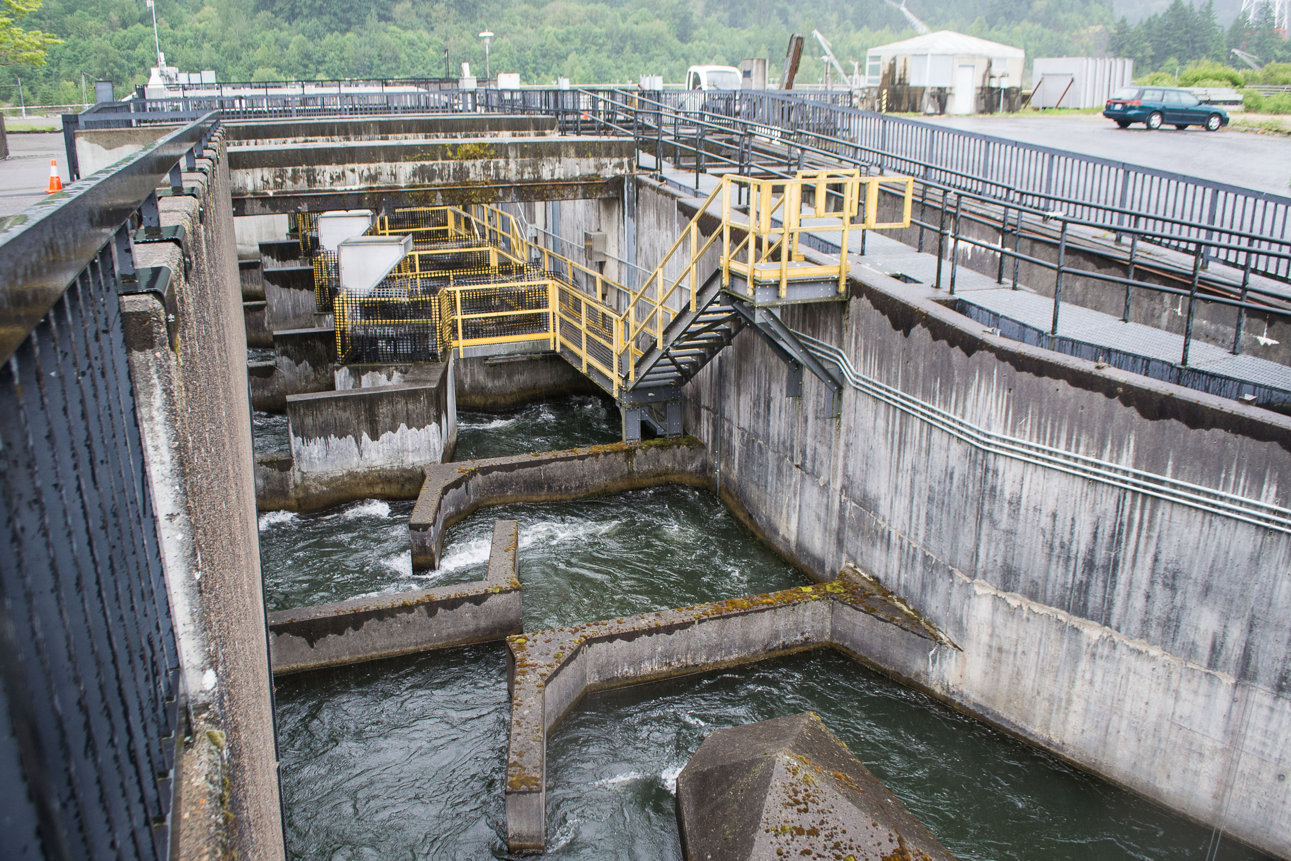 A fish ladder at Bonneville Dam